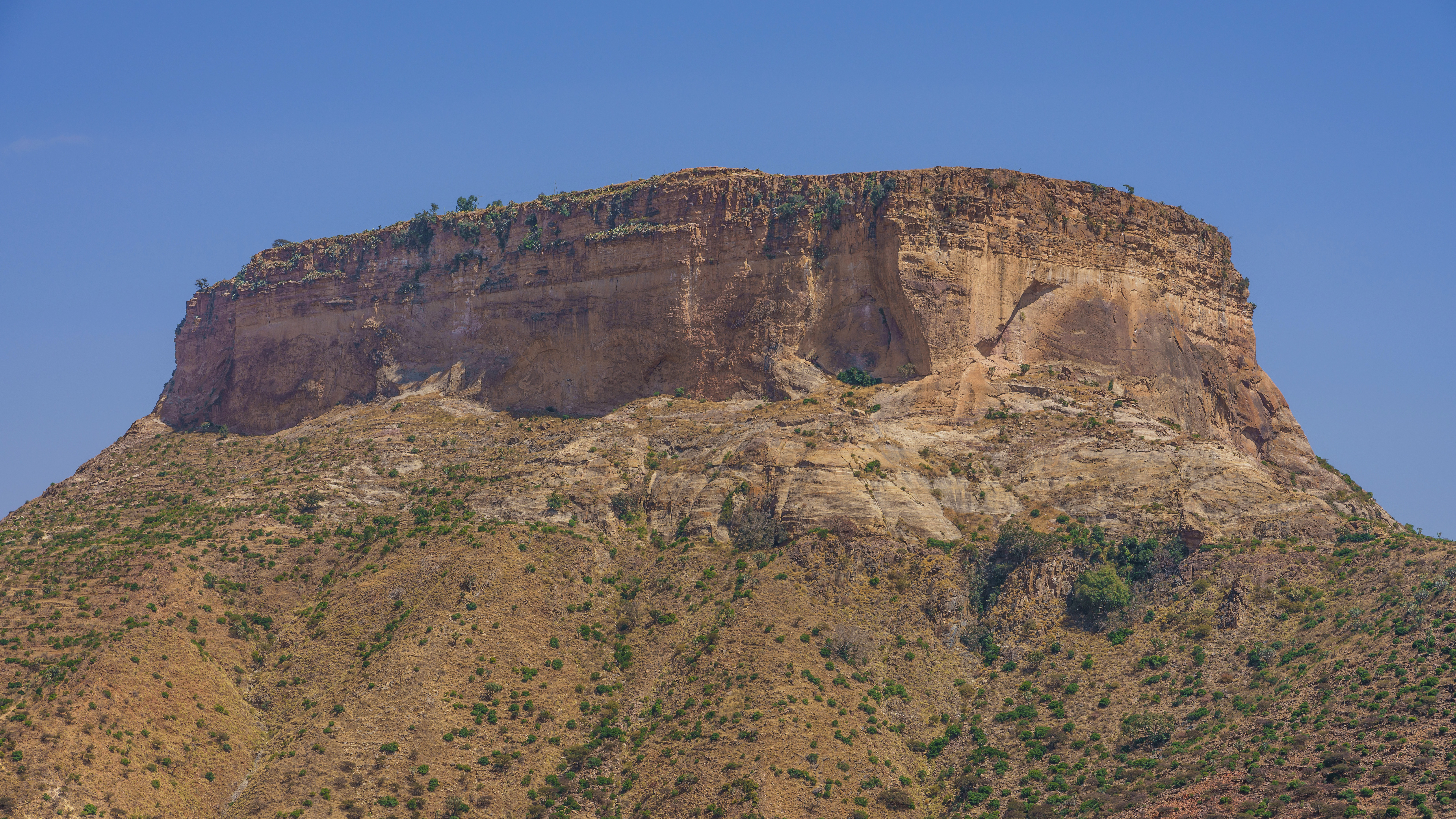 View of Debre Damo hill in Tigray Region, Ethiopia